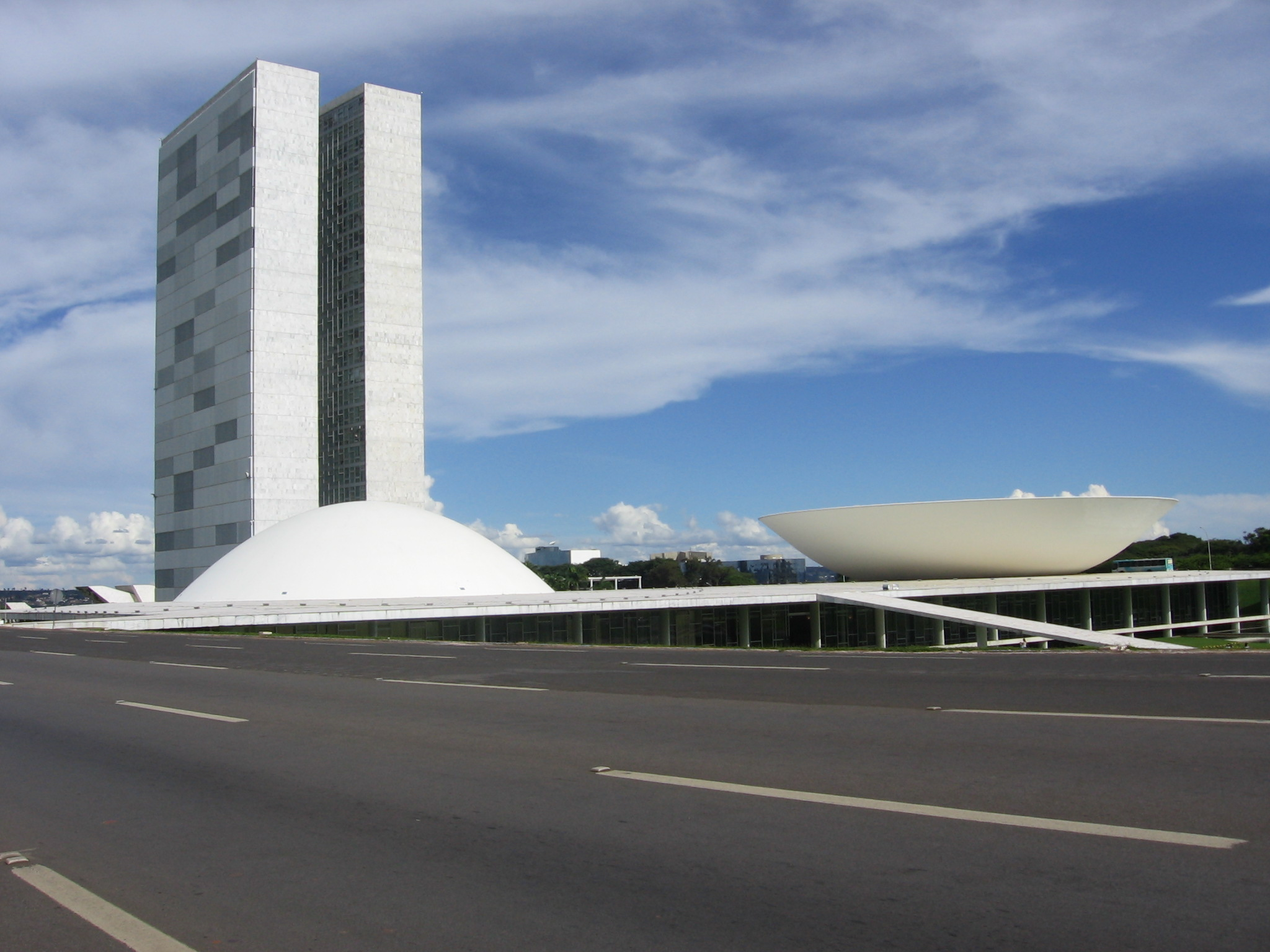 The National Congress in Brasilia, a creation of the architect Oscar Niemayer, in a empty morning Sunday.